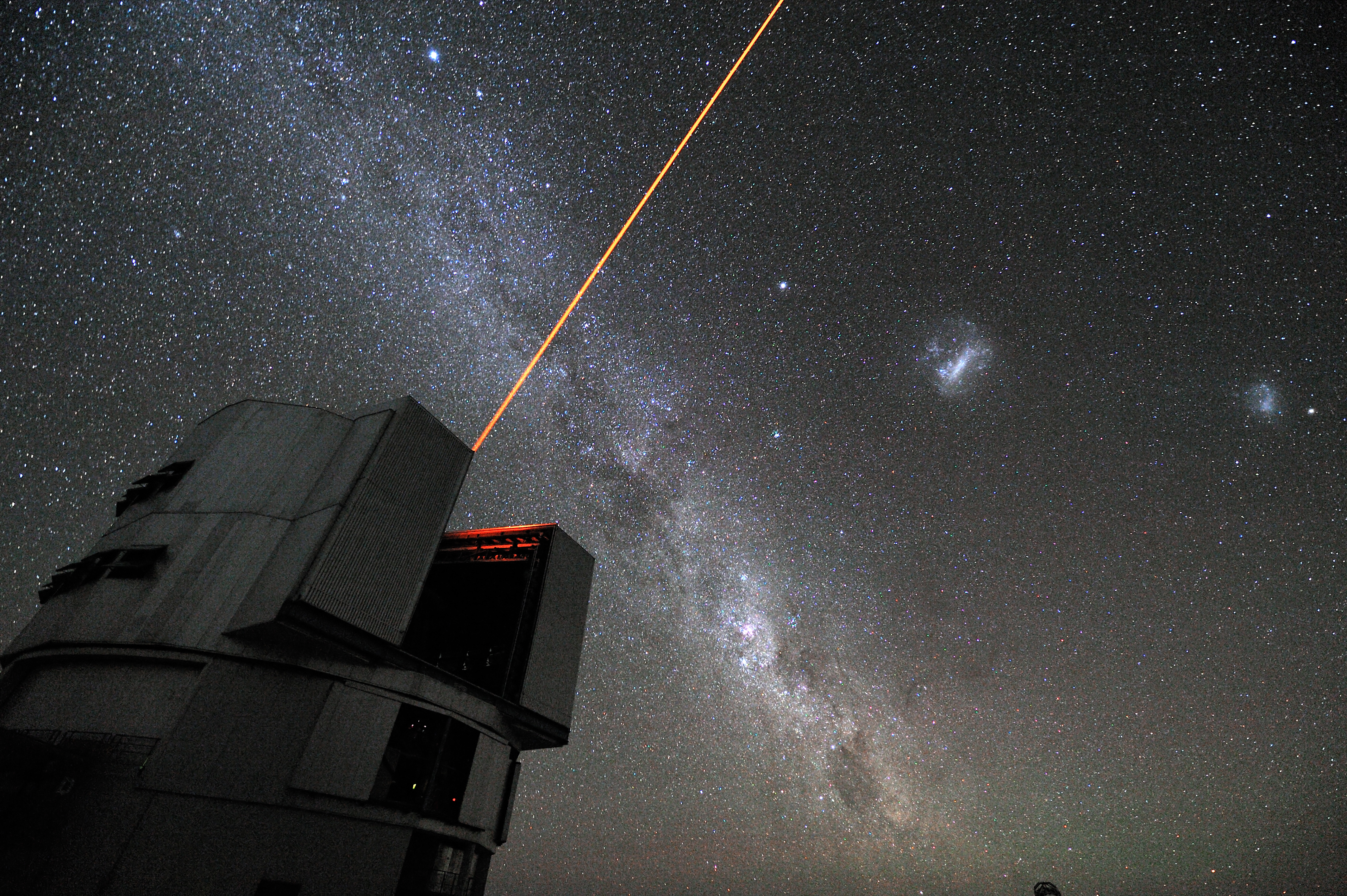 A laser beam launched from VLT´s 8.2-metre Yepun telescope crosses the majestic southern sky and creates an artificial star at 90 km altitude in the high Earth´s mesosphere. The Laser Guide Star (LGS) is part of the VLT´s Adaptive Optics system and it is used as reference to correct images from the blurring effect of the atmosphere. The picture field is crossed by an impressive Milky Way, our own galaxy seen perfectly edge-on. The most prominent objects on the Milky Way are: Sirius, the brightest star in the sky, visible at the top and the Carina nebula, seen as a bright patch besides the telescope. From the right edge of the picture to the left, the following objects are aligned: the Small Magellanic Cloud (with the globular cluster 47 Tucanae on its right), the Large Magellanic Cloud and Canopus, the second brightest star in the sky.